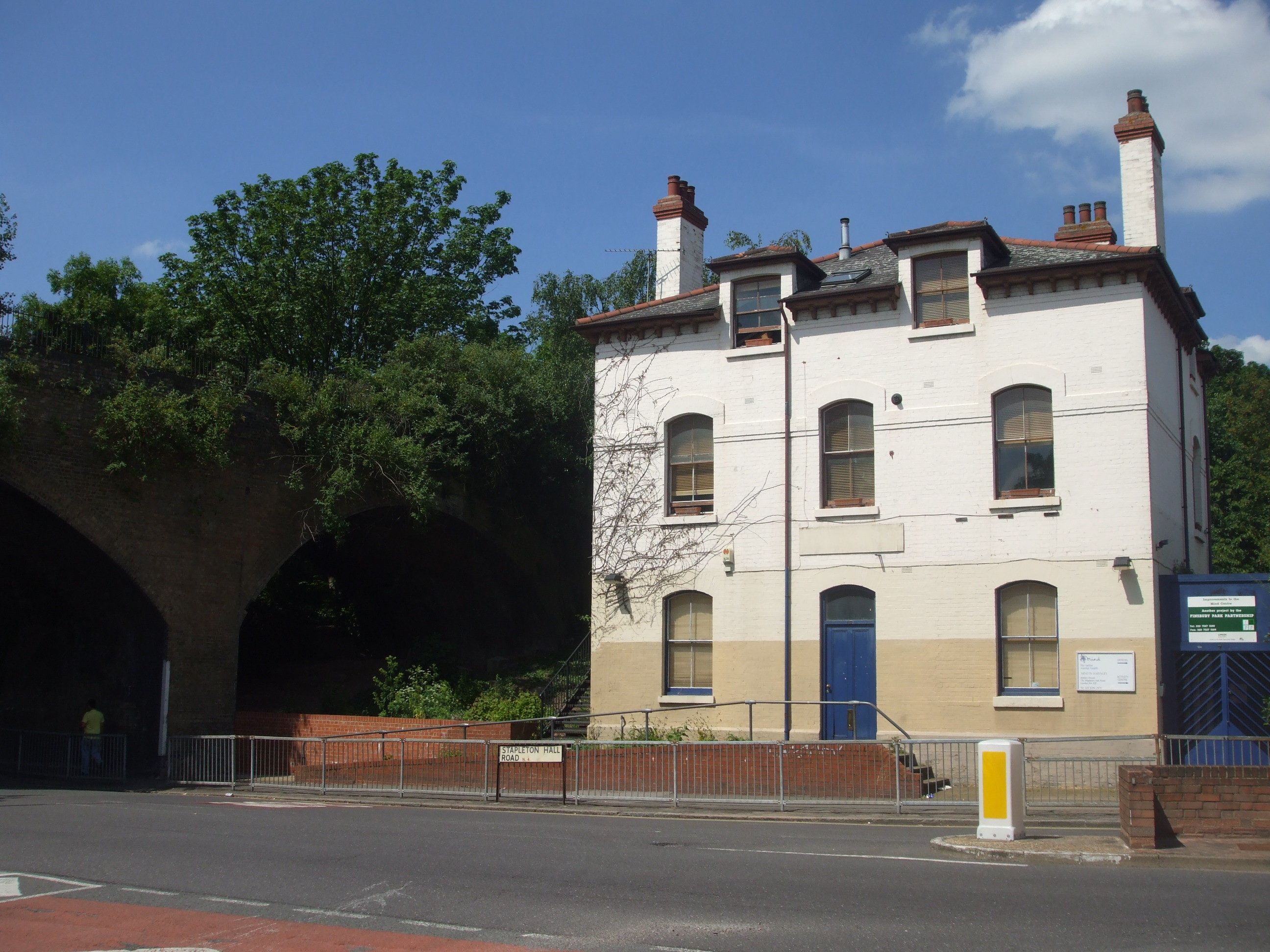 Stroud Green station former station master's building. The actual entrance to the platforms has long been demolished. The station closed to passengers in 1954.